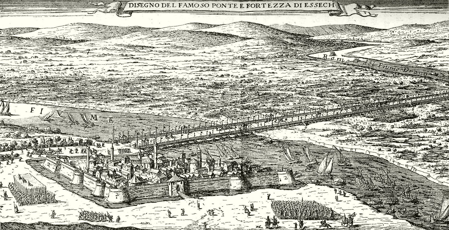 Osijek, Kingdom of Slavonia (modern-day Croatia), by the end of Ottoman occupation, by Giovanni Giacomo de Rossi